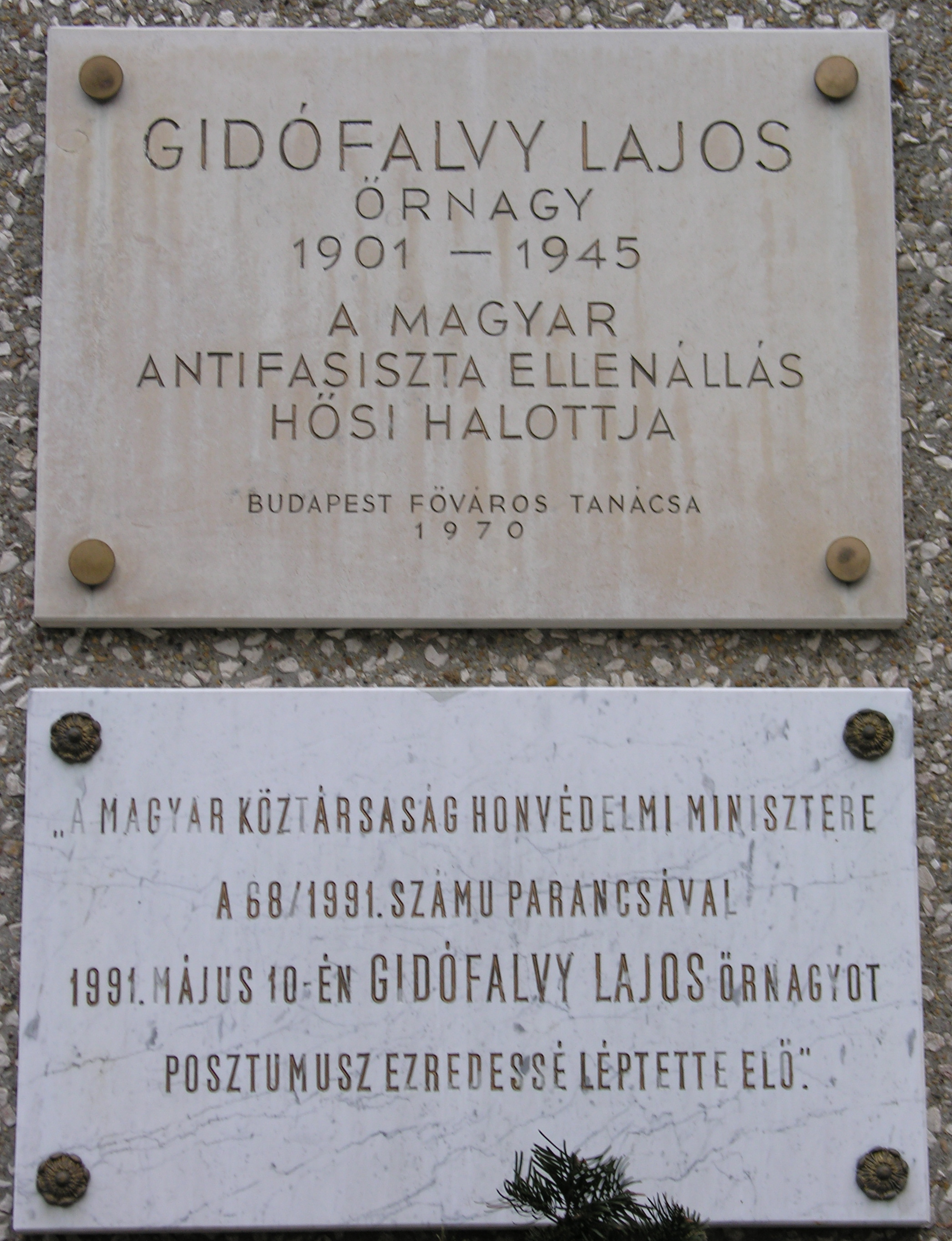 Commemorative plaques of Lajos Gidófalvy in Budapest District XIII, Gidófalvy Street No 1